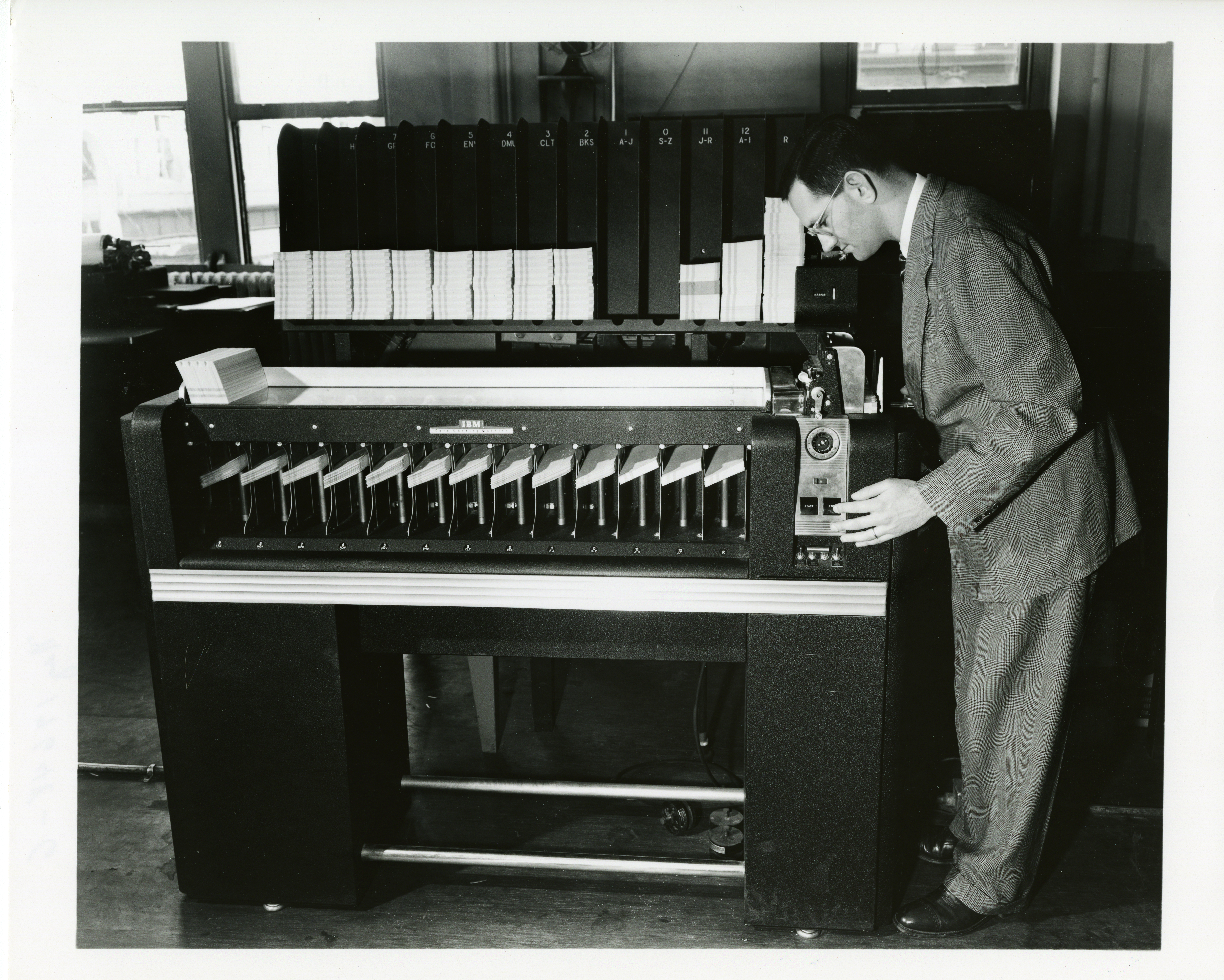 SEAC computer ancillary equipment, an IBM card sorter